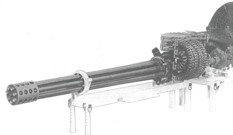 The GAU-8 Avenger, public domain photo from gulflink.osd.mil (Edited version by Corporal 21:06, 17 October 2005 (UTC))